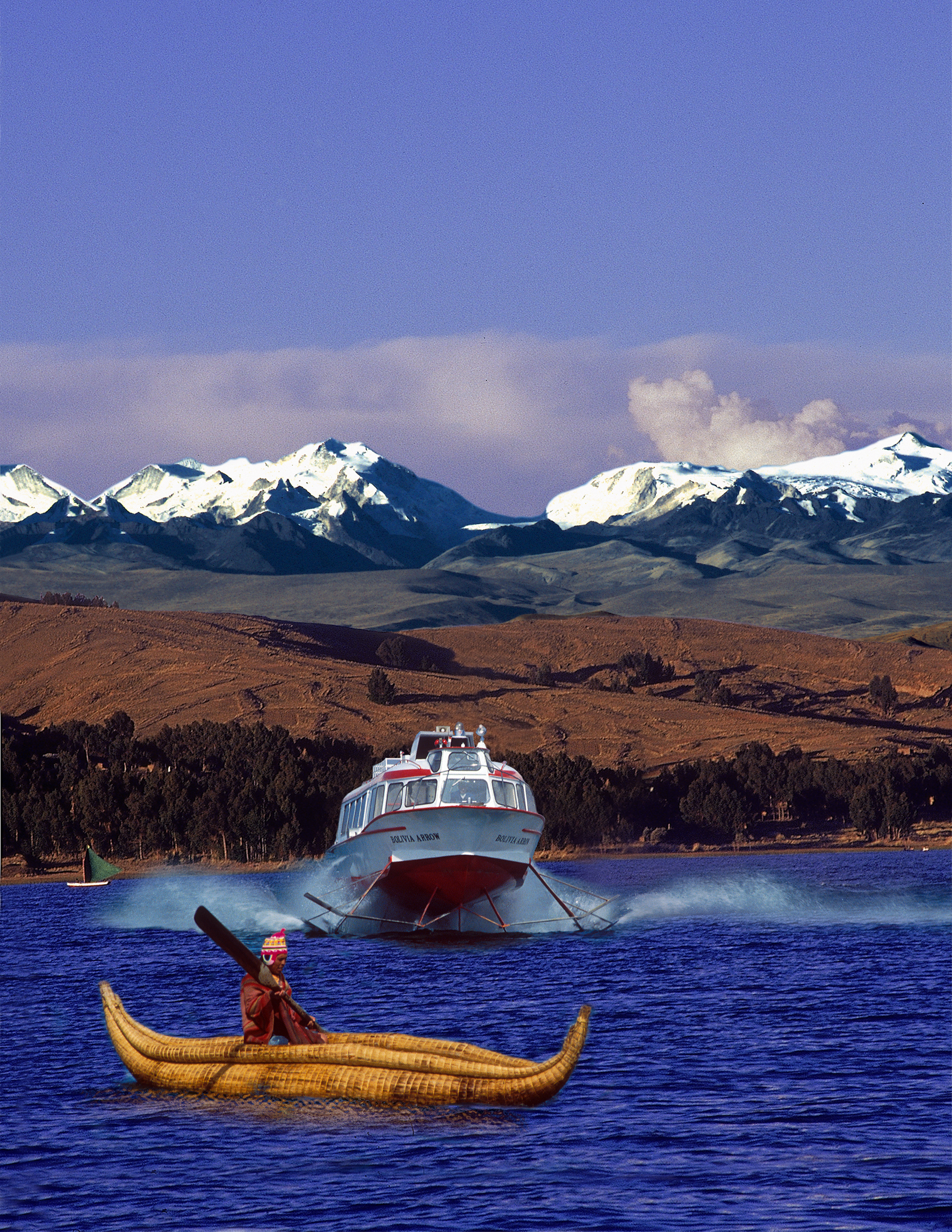 Titicaca Hydrofoils